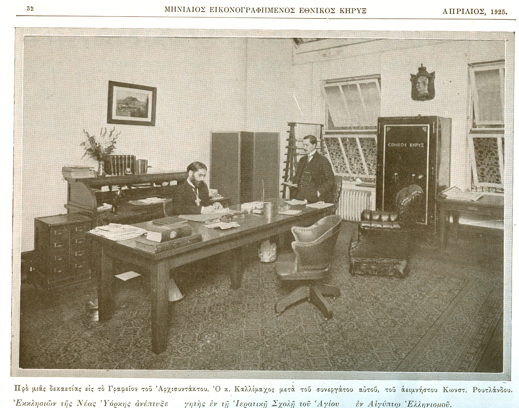 Ο Εθνικός Κήρυκας 1925